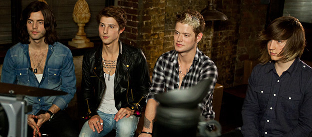 Hot Chelle Rae is on top of the music world, with a brand new hit album, single, and an American Music Award for "New Artist of the Year." Walmart Risers sits down with the guys to get the inside info -- see the interview at